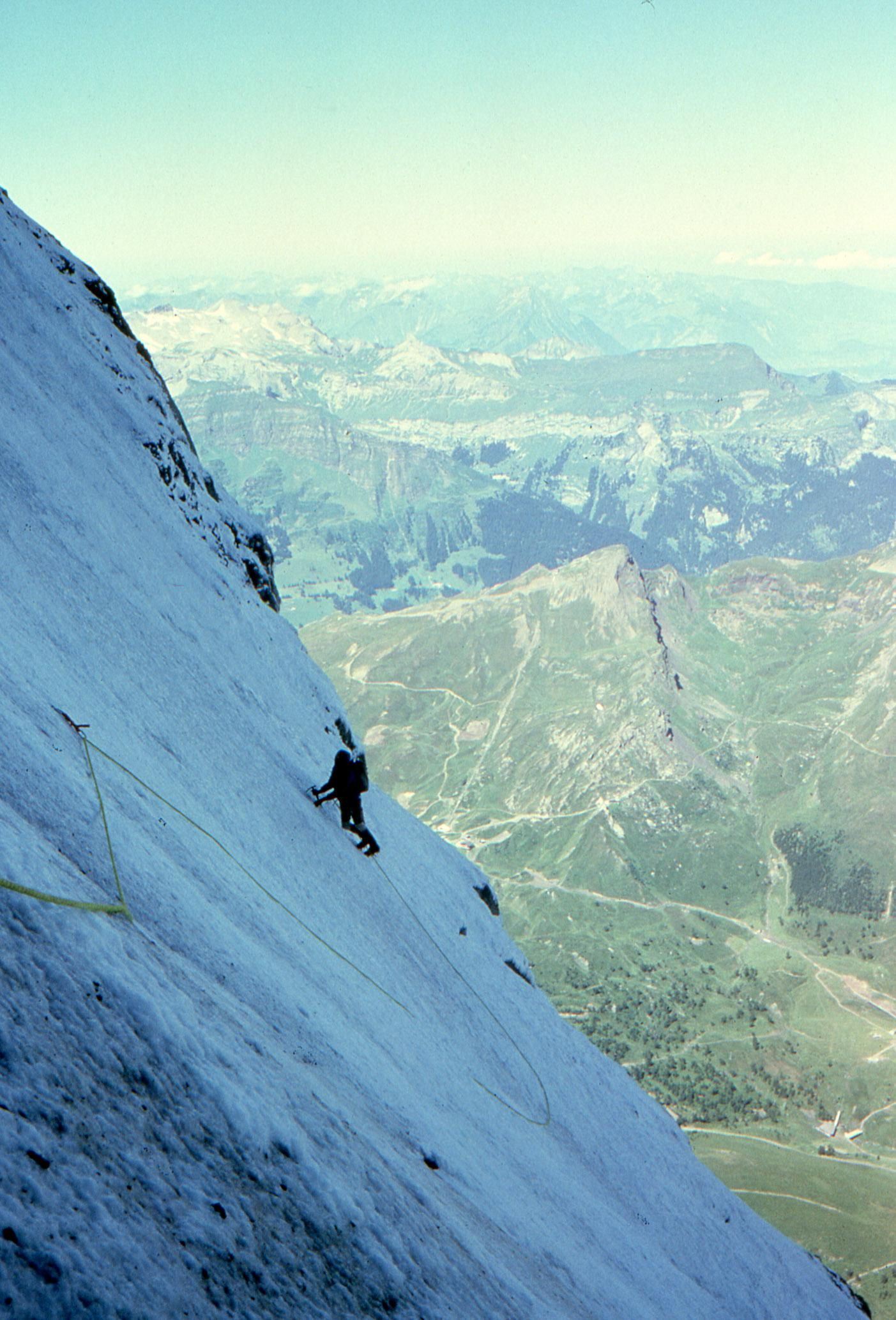 Climbing the second icefield in the Eiger northface